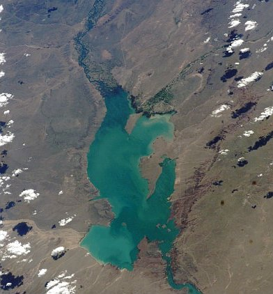 The Limay River in northern Patagonia, Argentina. In the picture, the reservoir of El Chocón (picture has been clipped and enhanced for contrast and saturation).